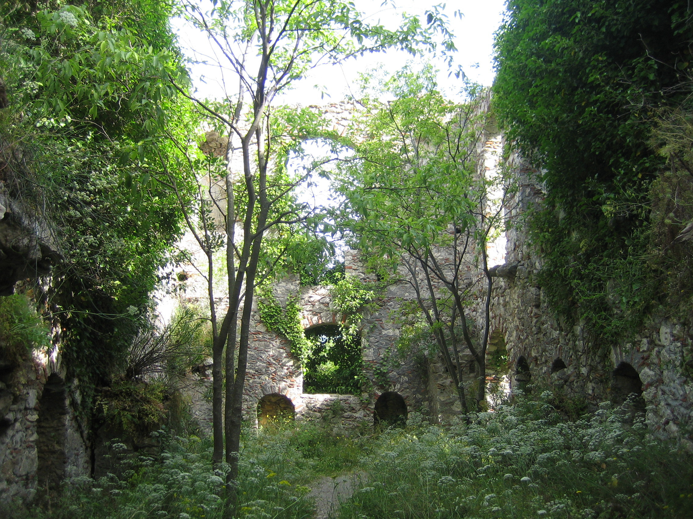 Ruins of Mystras, Greece.